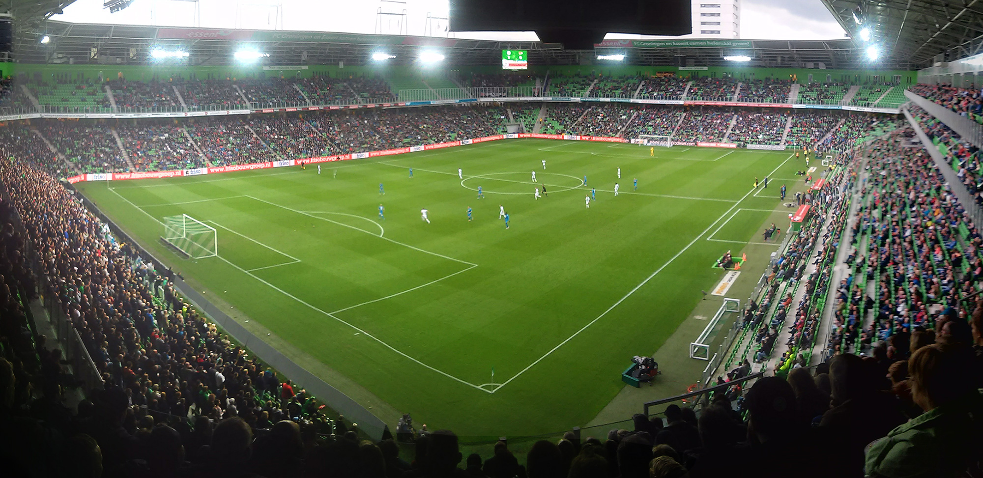 Euroborg in Groningen. Stadium of FC Groningen.